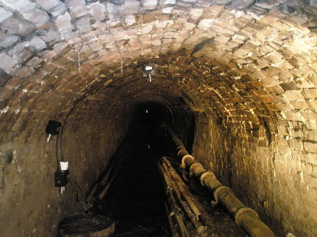 Inside the Tar Tunnel